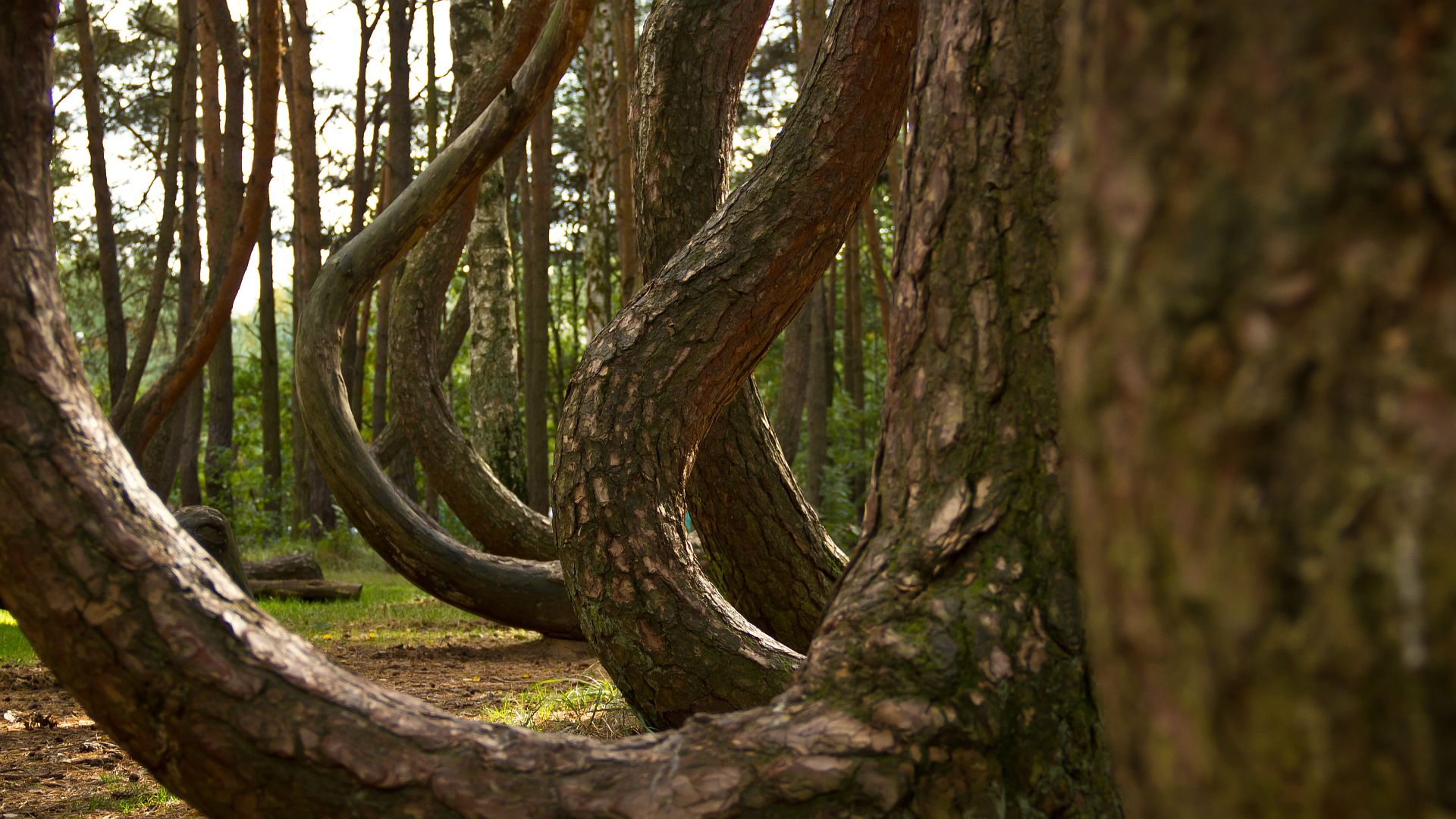 Crooked Forest, Nowe Czarnowo